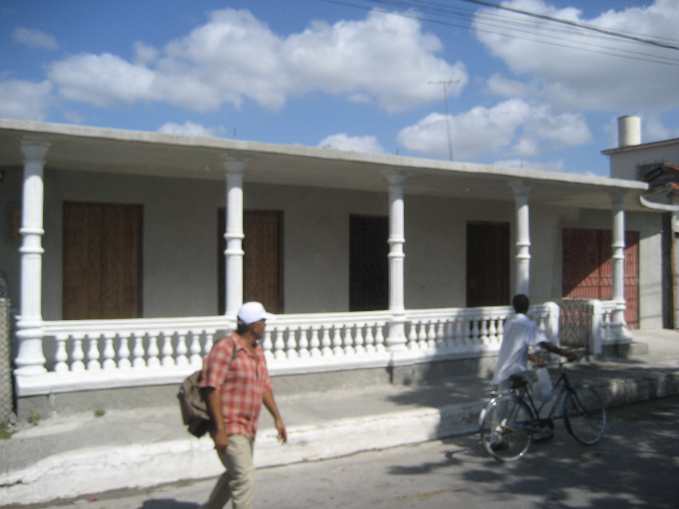 Franciscan misionary house at the San José de Jatibonico Church, in Jatibonico, Cuba.